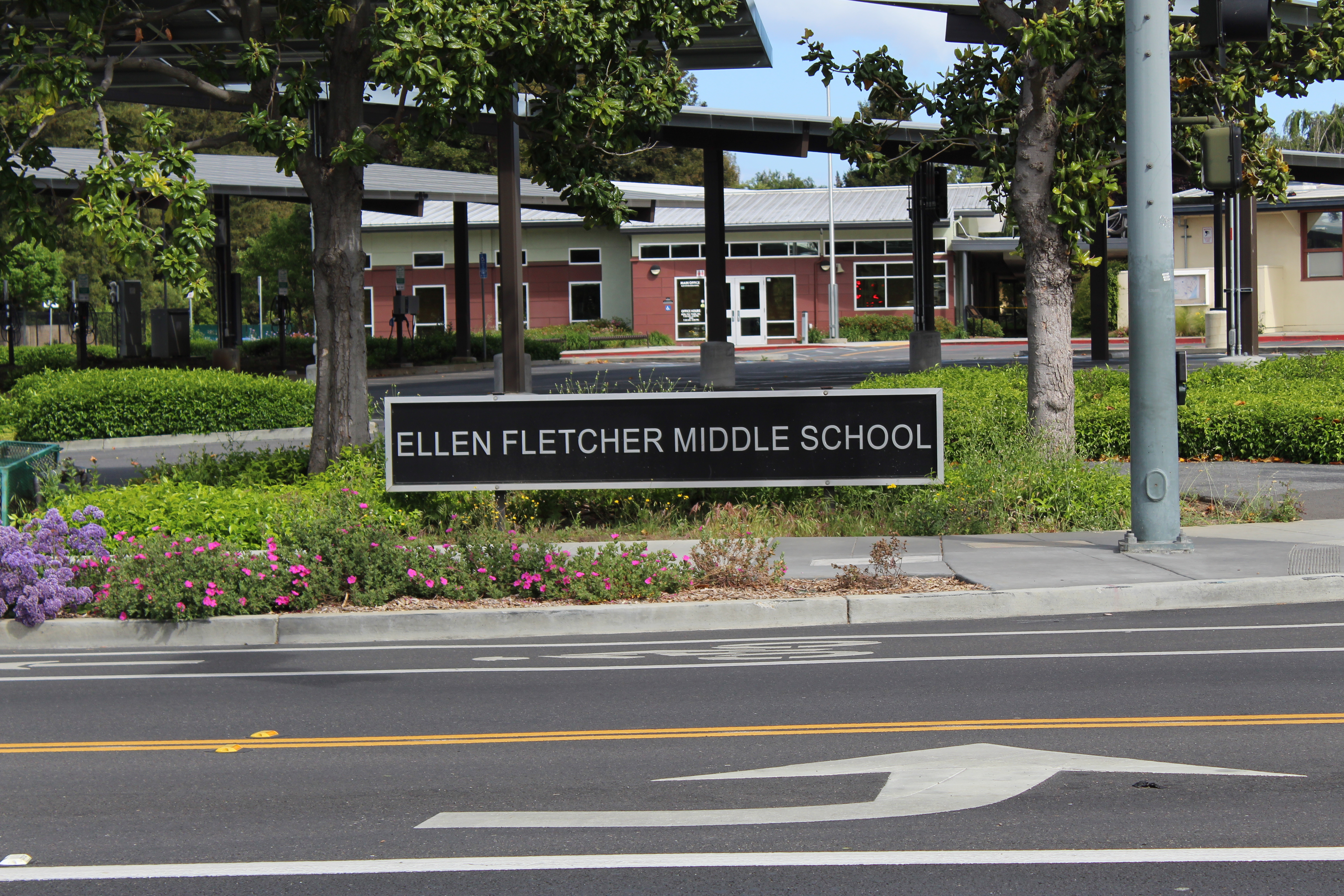 Sign for Ellen Fletcher Middle School in Palo Alto, California